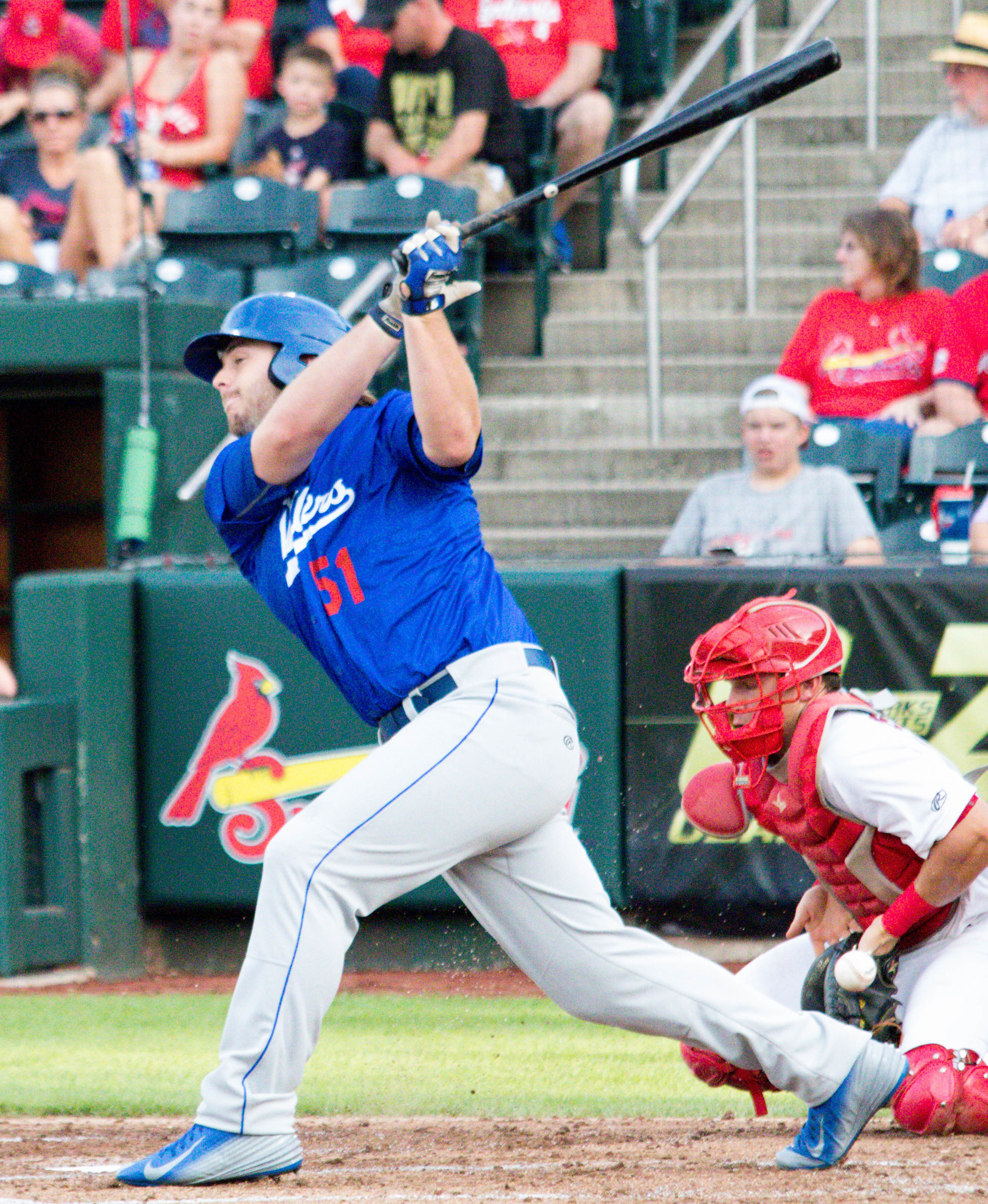 Joey Curletta of the Tulsa Drillers swings at a pitch during a 2016 game in Springfield, Missouri